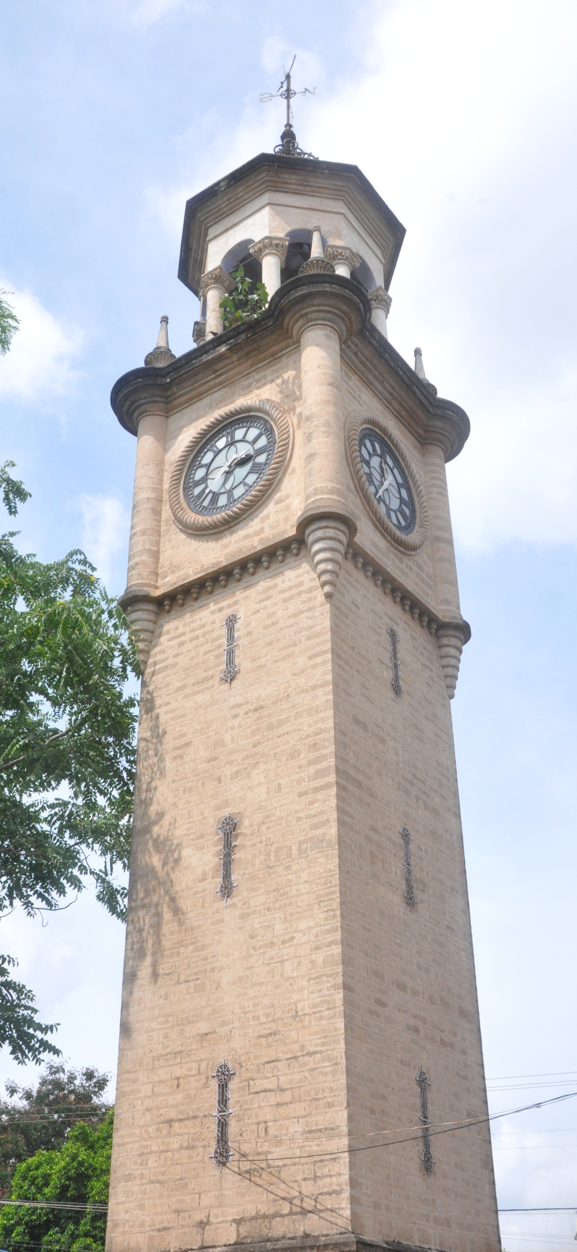 This Clock Tower, a gracious gift to the City of Rajkot from His Royal Highness Jam Vibhaji, the erstwhile ruler of Nawanagar State, was originally installed in 1880 and inaugurated By Col. C. Woodhouse, the political agent for kathiawar. The Brass Bell, Weighting 250 Kgs. was installed later in 1887. On 8th February 2008, this tower is rededicated to the City of Rajkot by the Honorable Chief Minister of Gujarat Shri Narendra Modi, which gracious support from as well as in presence of Jamsaheb Shri Shatrushalya Sinhji Of Nawanagar State.